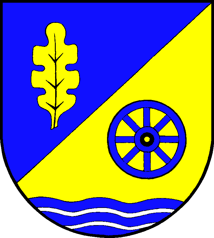 Coat of arms of the municipality Westerholz in Schleswig-Holstein, Germany.